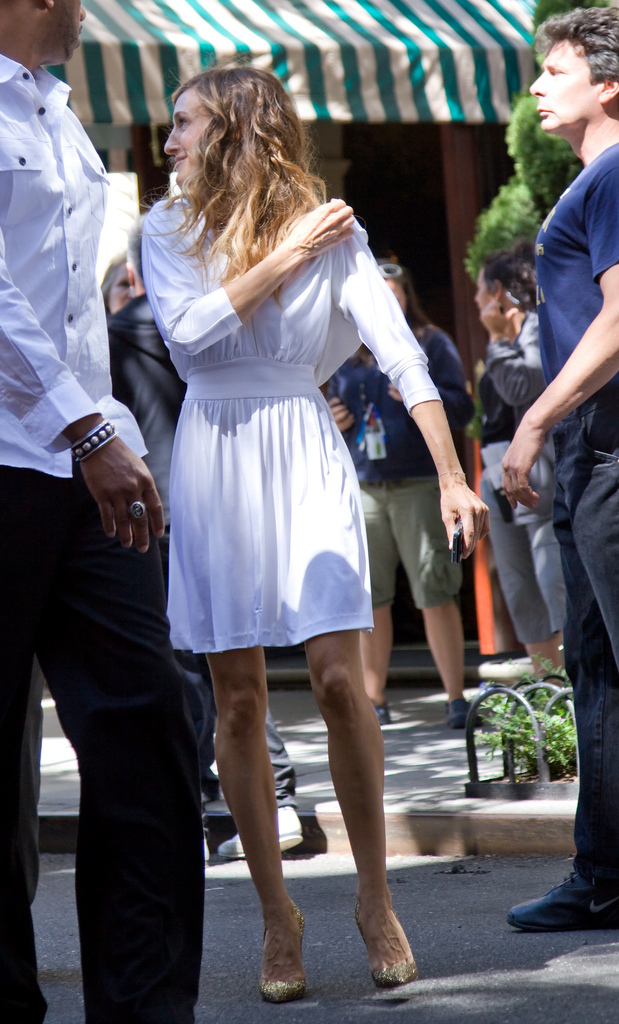 Sarah Jessica Parker. Now that I'm no longer a Paparazzo, I decided to publish my best and favorite images to my Flickr since I still hold the rights. She was positively swarmed with paparazzi. I've got lots more shots of her but this is my favorite for the reason that it shows her simple elegance and beauty while doing something ever so natural. If you use this image, please link back to it and cite me accordingly as per my license on it.